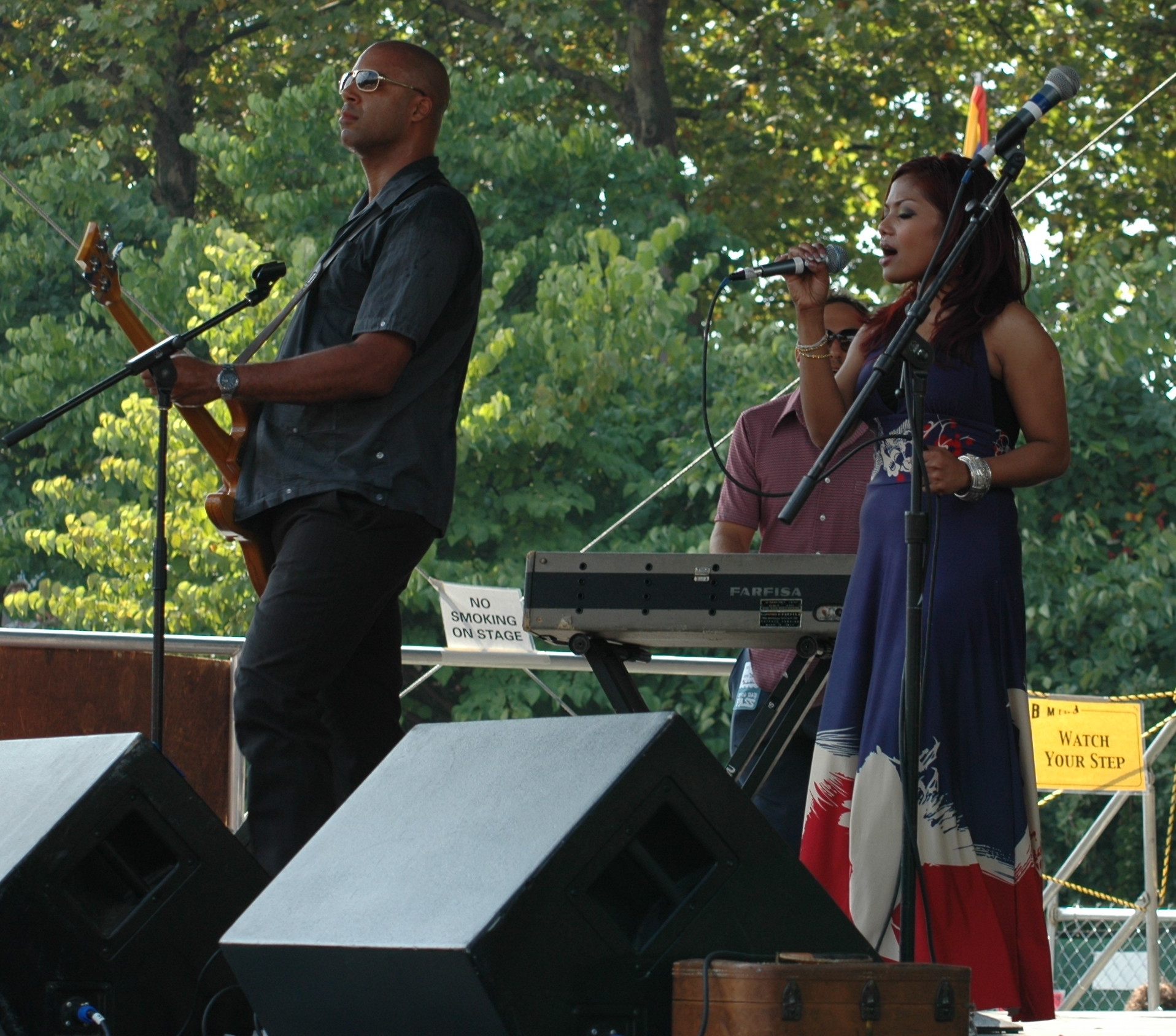 Los Angeles band Dengue Fever.